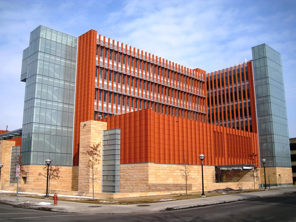 A photo of Ross Business School at the University of Michigan